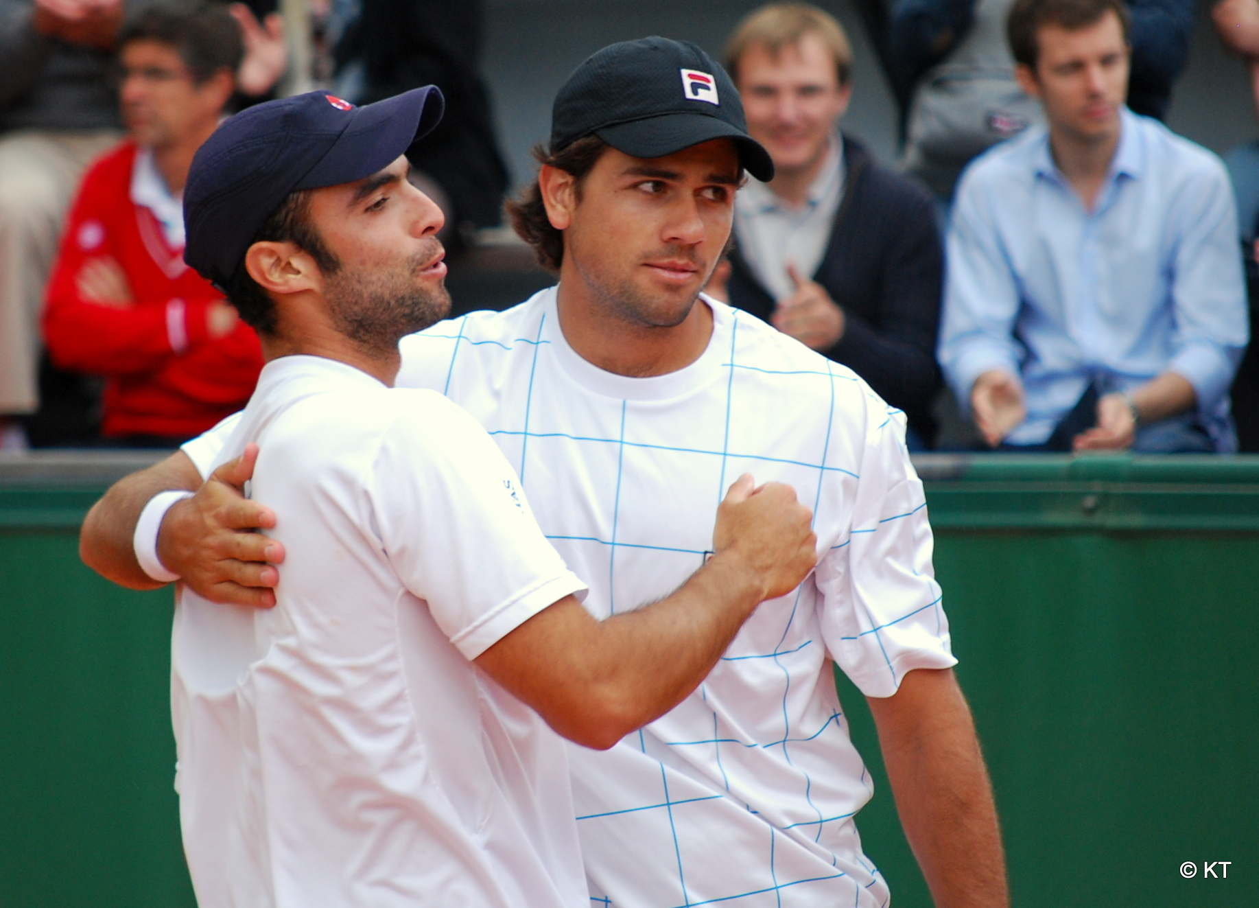 Juan Sebastian Cabal & Eduardo Schwank win their 2nd round match with Colin Fleming & Philipp Marx. Roland Garros 2011.